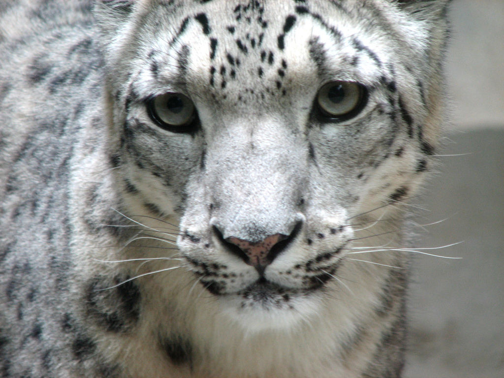 Snow Leopard at Potters Park Zoo in Lansing Michigan